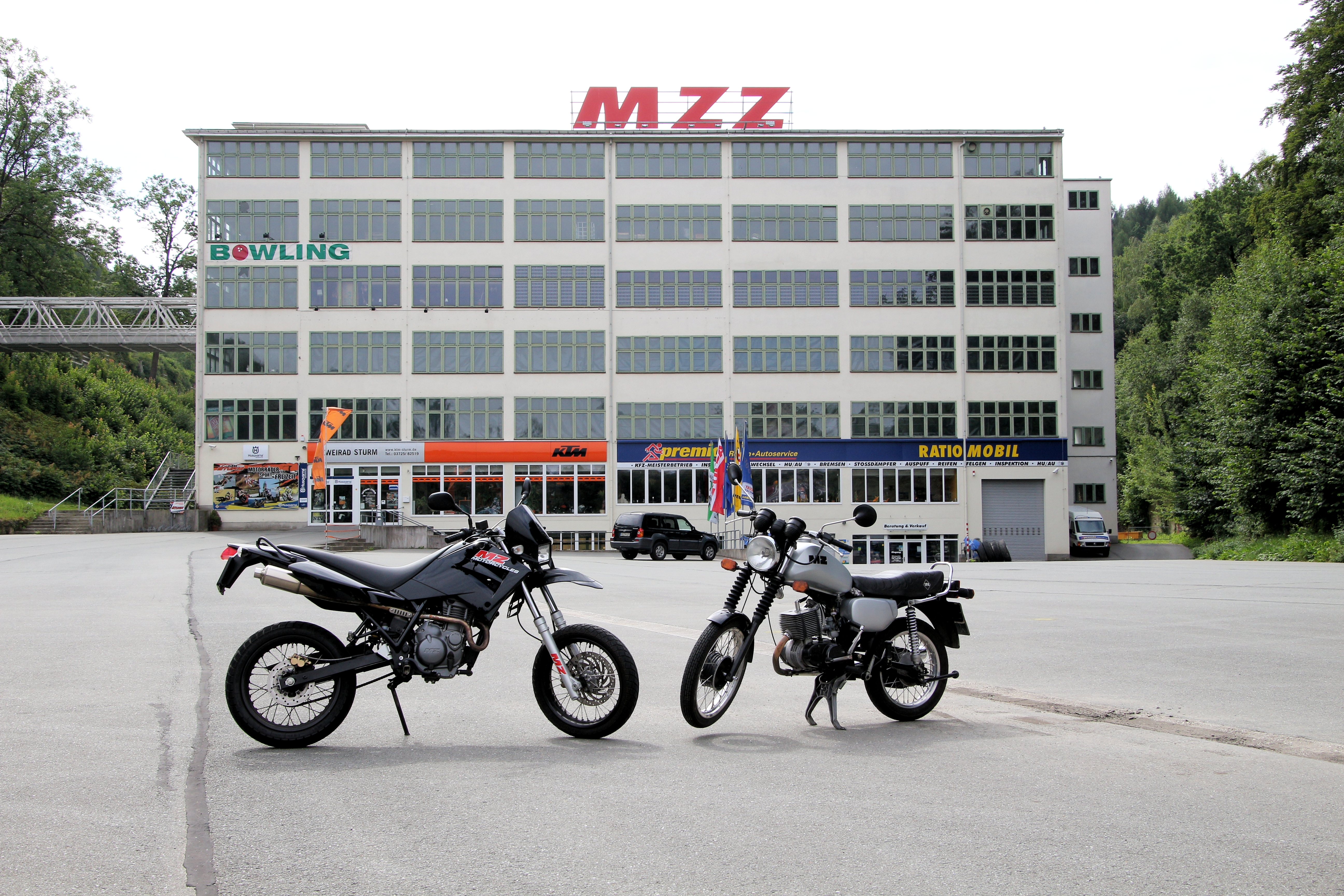 The former MZ factory in August 2008. In front a MZ SM 125, built in 2008 and a MZ ETZ 150, built in 1989 .